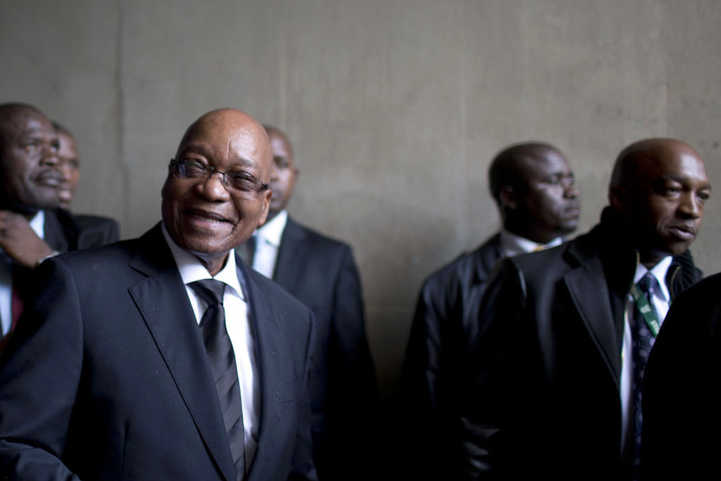 President Obama and President Jacob Zuma of South Africa wait to take the stage in a tunnel at the soccer stadium. (Official White House Photo by Pete Souza) (This file is an edited cropped version showing only Zuma.)